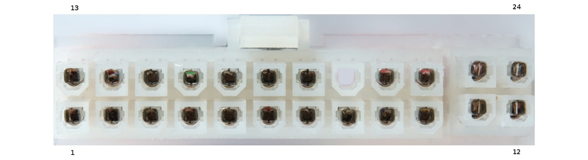 Powerconnector